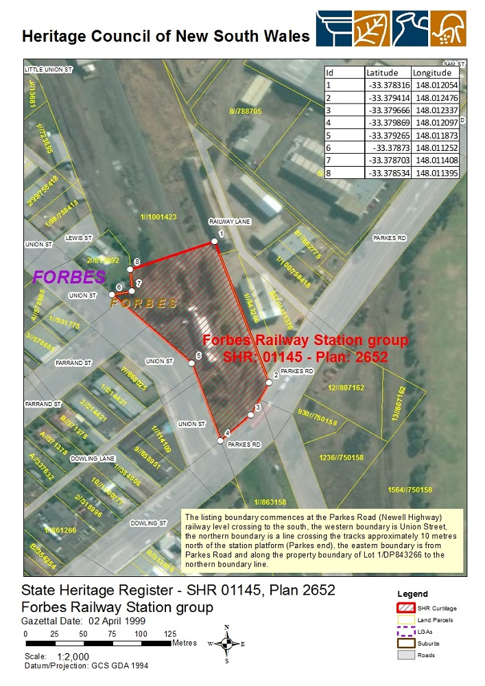 Forbes railway station: SHR Plan No 2652